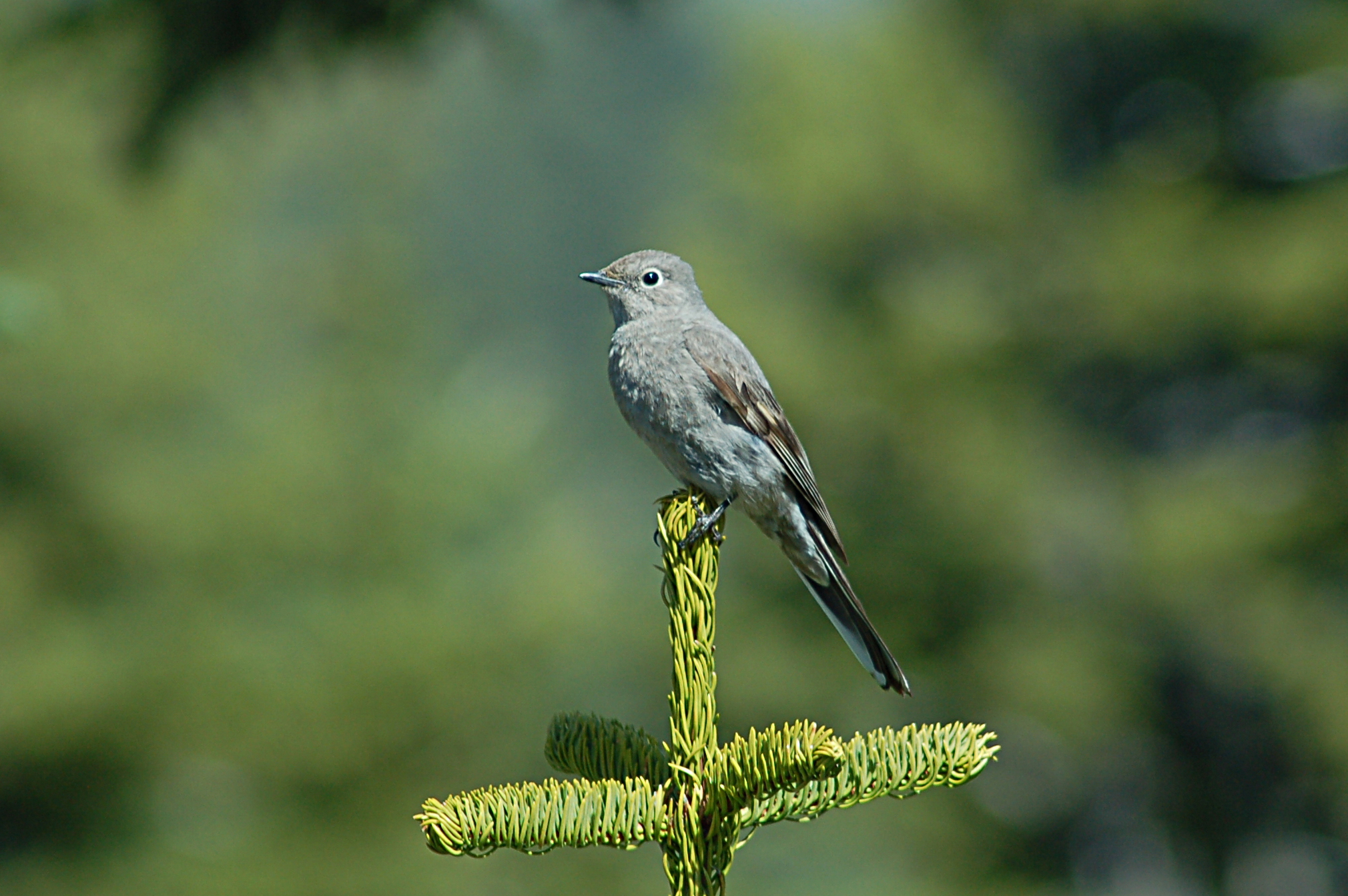 Townsend's Solitaire Myadestes townsendi, Mt Ashland Road, Jackson County, Oregon